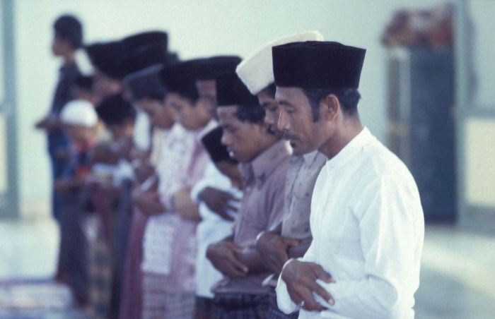 Praying muslim men on friday in the mosque, Tulehu